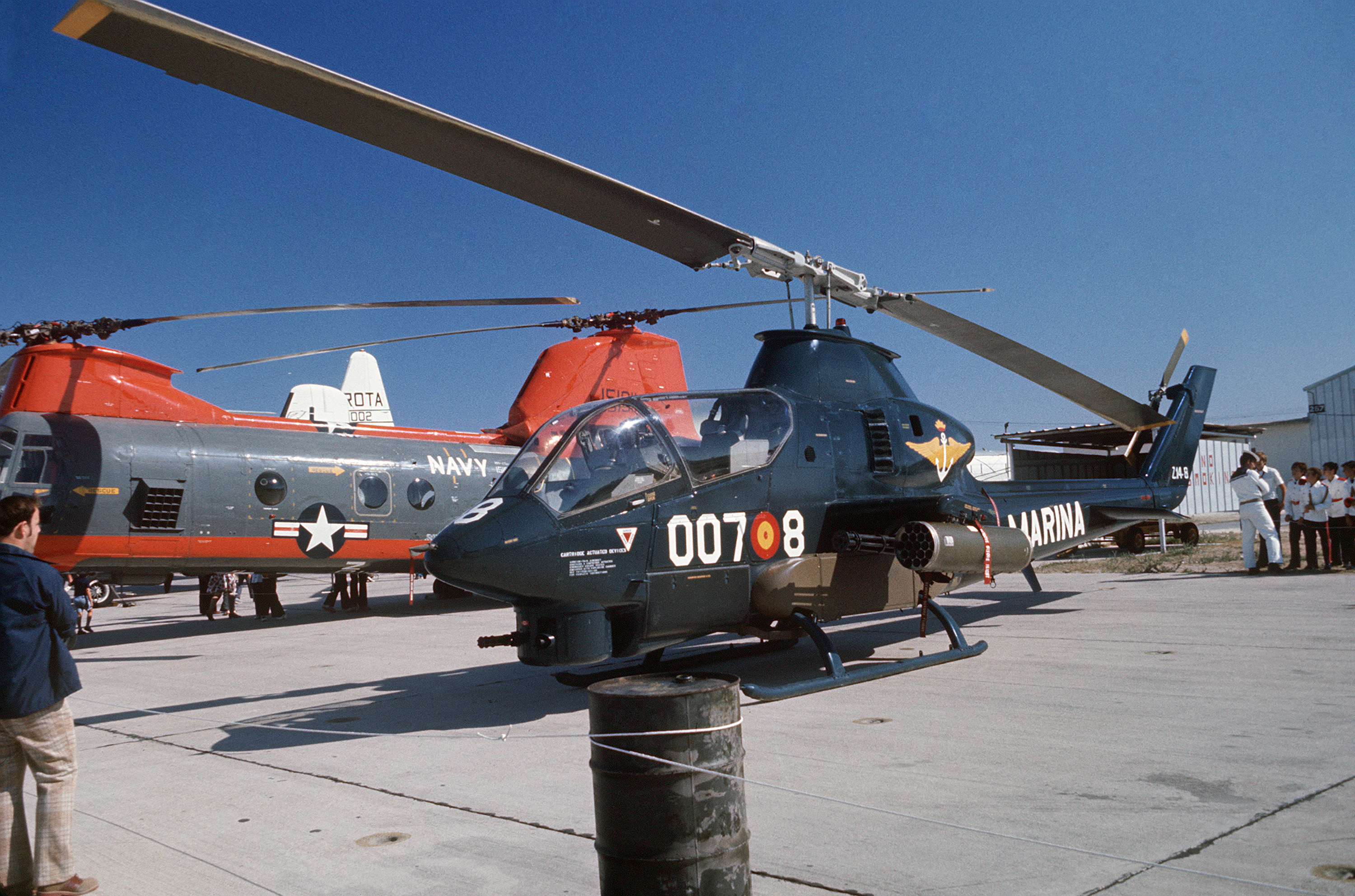 A Spanish navy Bell AH-1G HueyCobra on display at the U.S. Naval Station Rota, Spain, in 1975. A U.S. Navy Boeing Vertol HH-46A Sea Knight (BuNo 151911) is visible behind the AH-1G.